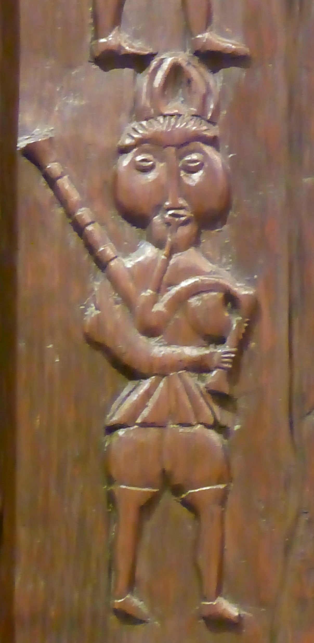 Carving (c.1600) on an oak bookcase, thought to be originally from a bedstead in Threave Castle, Kirkcudbrightshire. Detail of an exhibit in the National Museum of Scotland in Edinburgh.